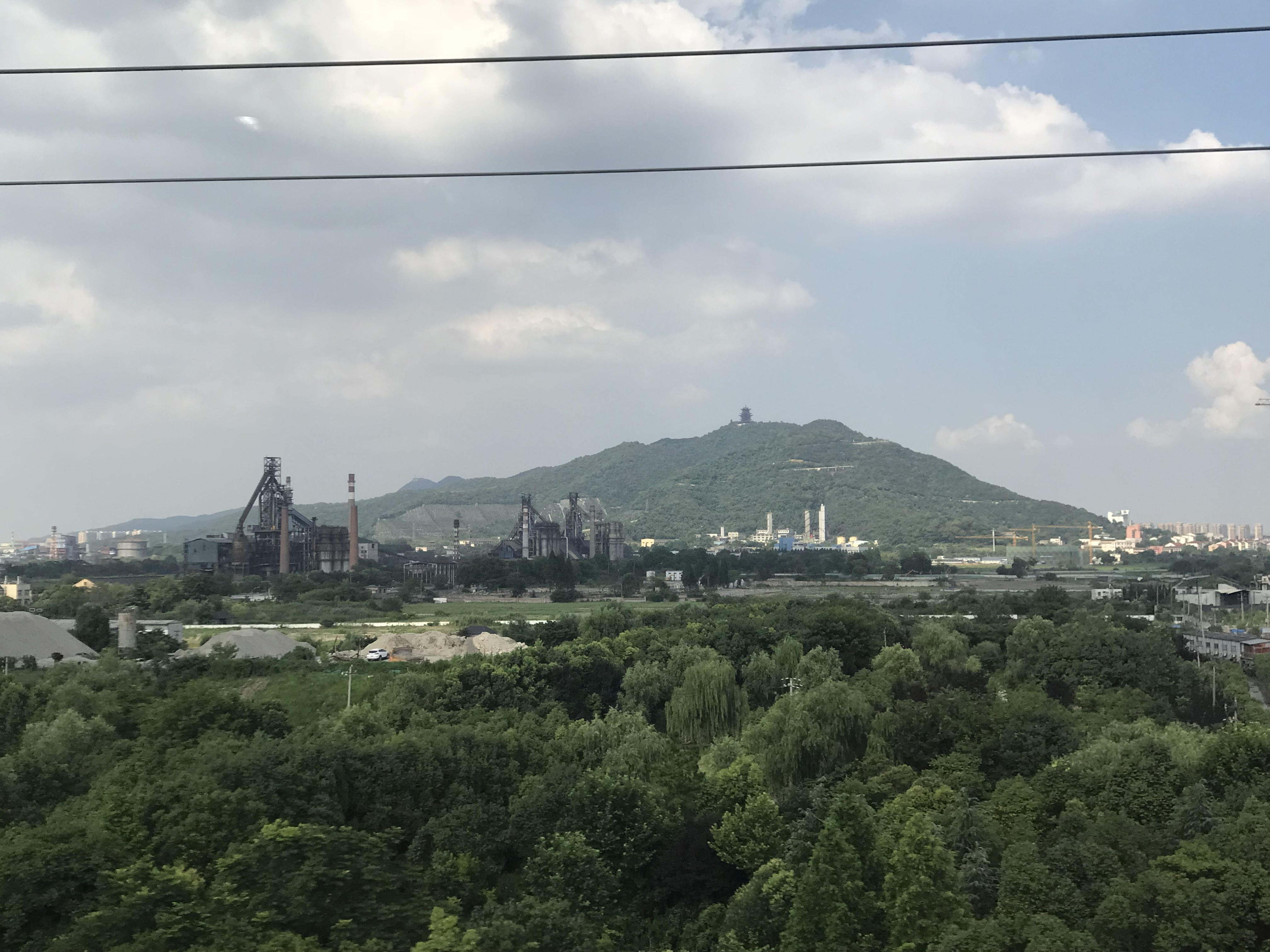 201806 HZSteel and Banshan